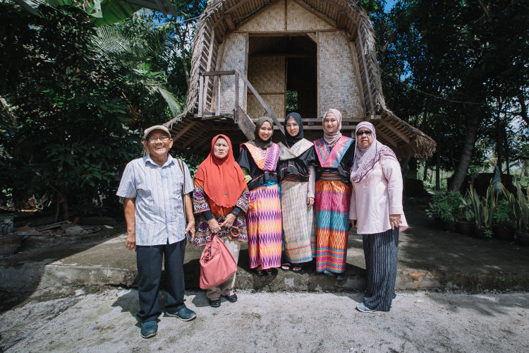 Tourists who visit Lombok try to wear sasak women's clothing. Taking pictures in front of traditional house of sasak tribe.